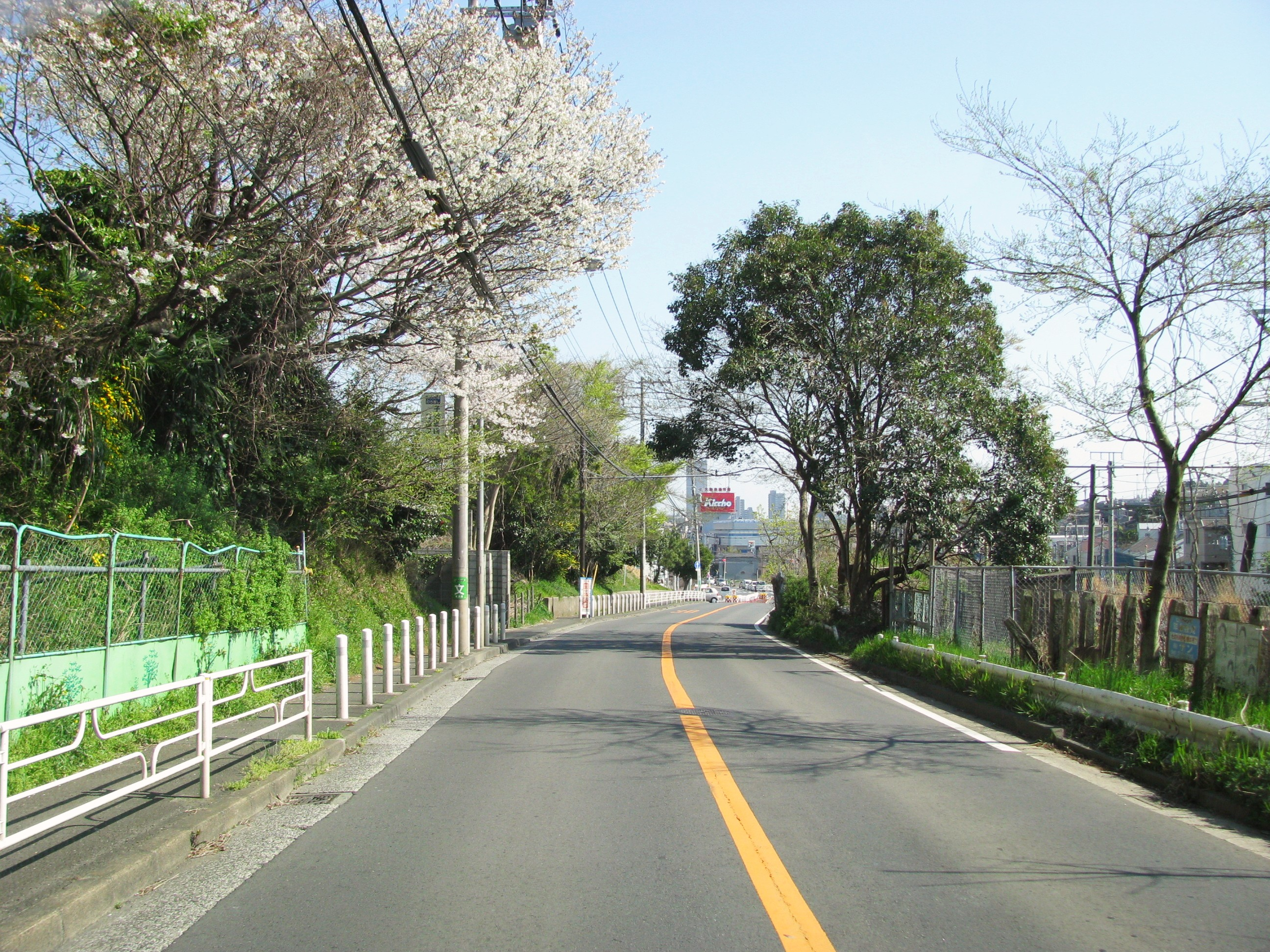 The Kanagawa Prefectural Route 111. This place is Kanagawa-ku, Yokohama, Kanagawa Prefecture, Japan.